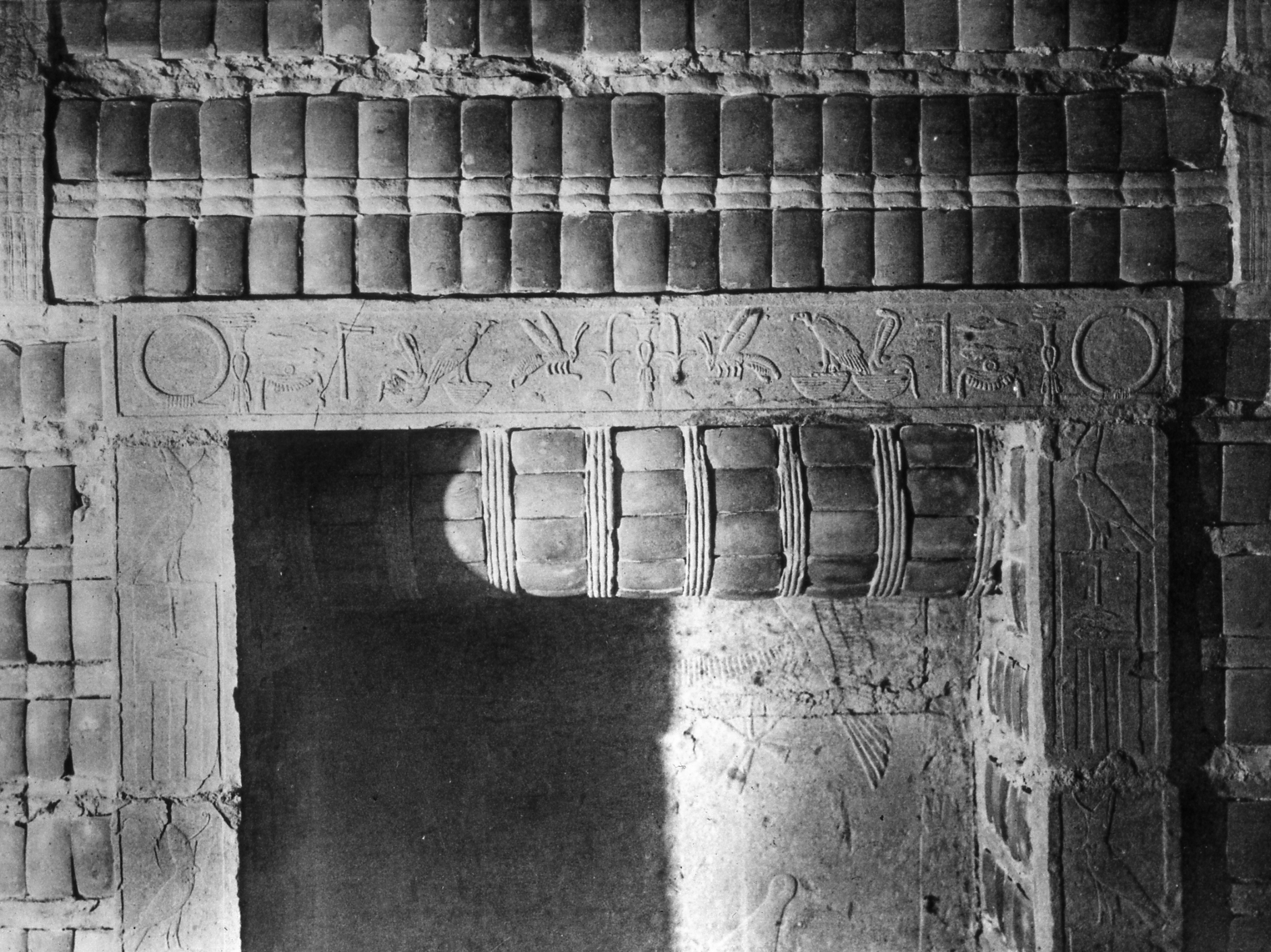 Lantern Slide Collection: Views, Objects: Egypt. Sakkara [selected images]. View 11: Detail Limestone and Faience molding around relief, Step Pyramid, Sakkara. 3rd Dy., n.d. Brooklyn Museum Archives (S10|08 Sakkara, image 9637). This image was uploaded at high resolution and it helps us to know how our visitors work with our images, so if you use it, we'd love to know how! Drop us a line by leaving a comment here or email our archivist